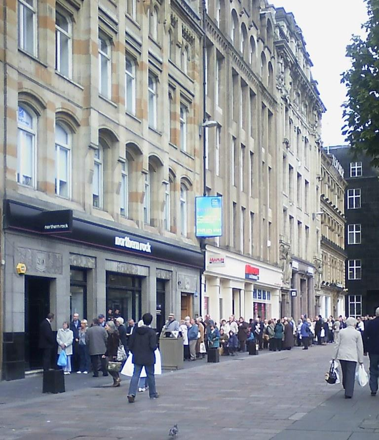 Run on the bank in Glasgow, UK